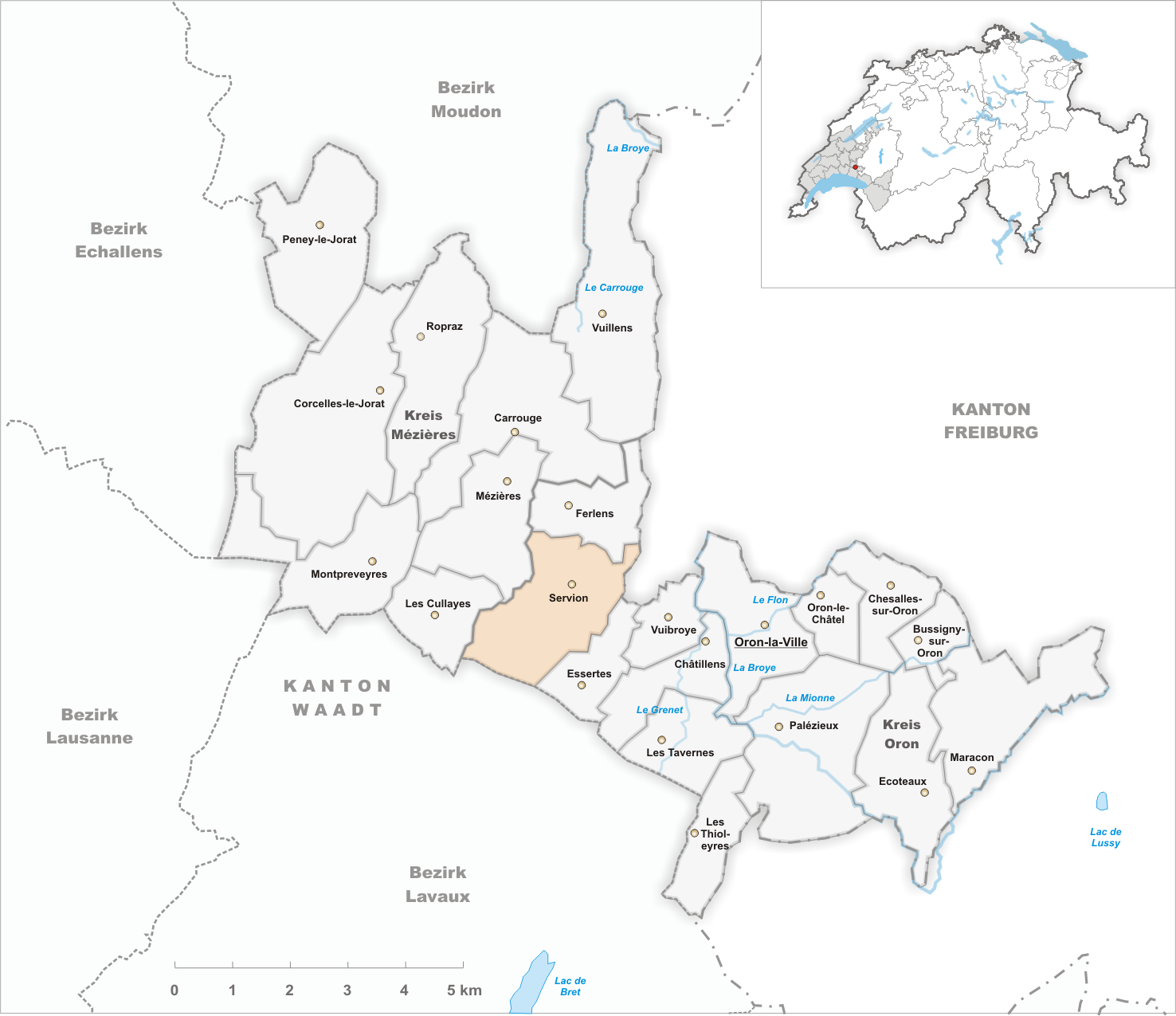 Municipality Servion